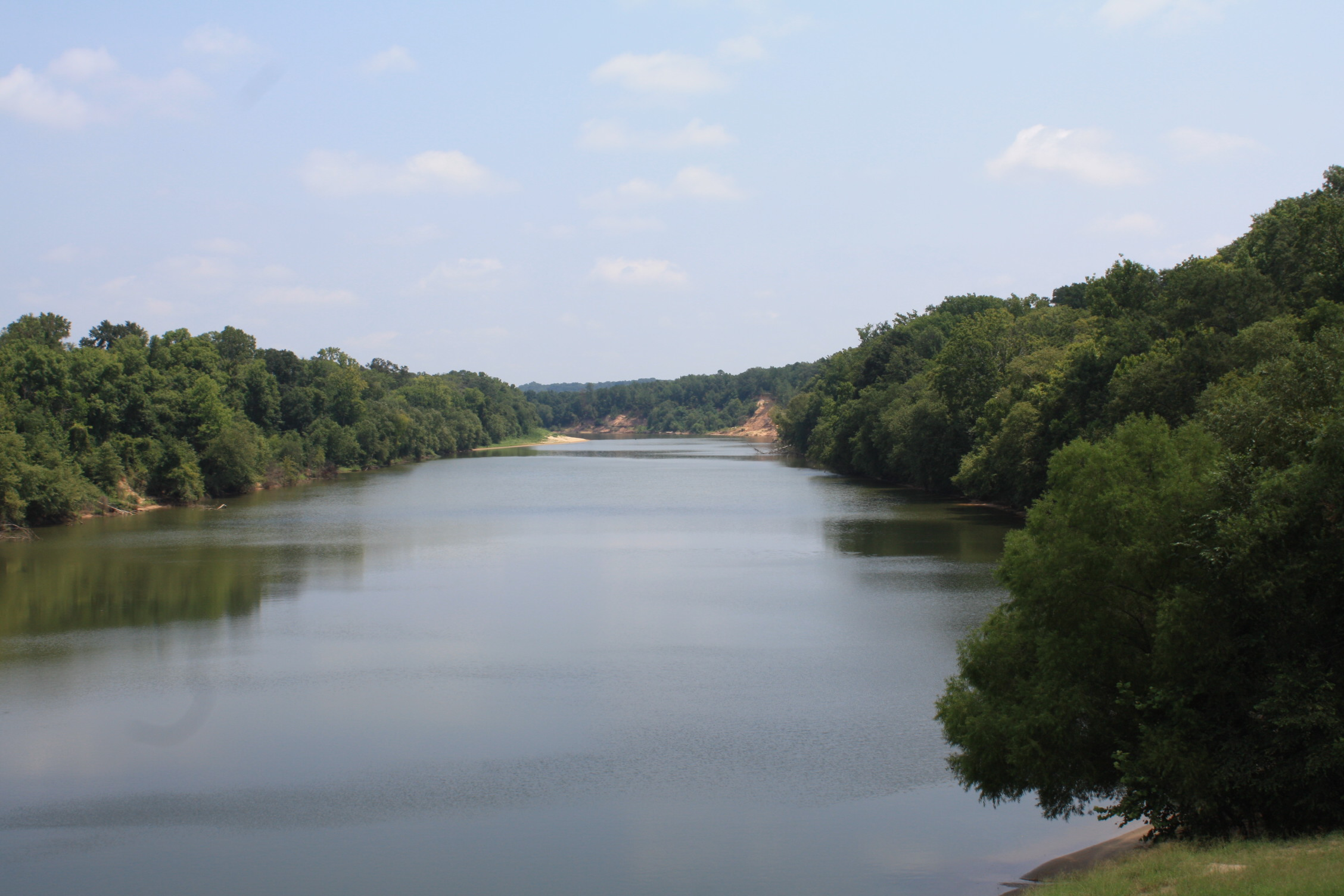 Upstream view of the Black Warrior River at the Moundville Archaeological Park in Moundville, Hale County, Alabama, United States.